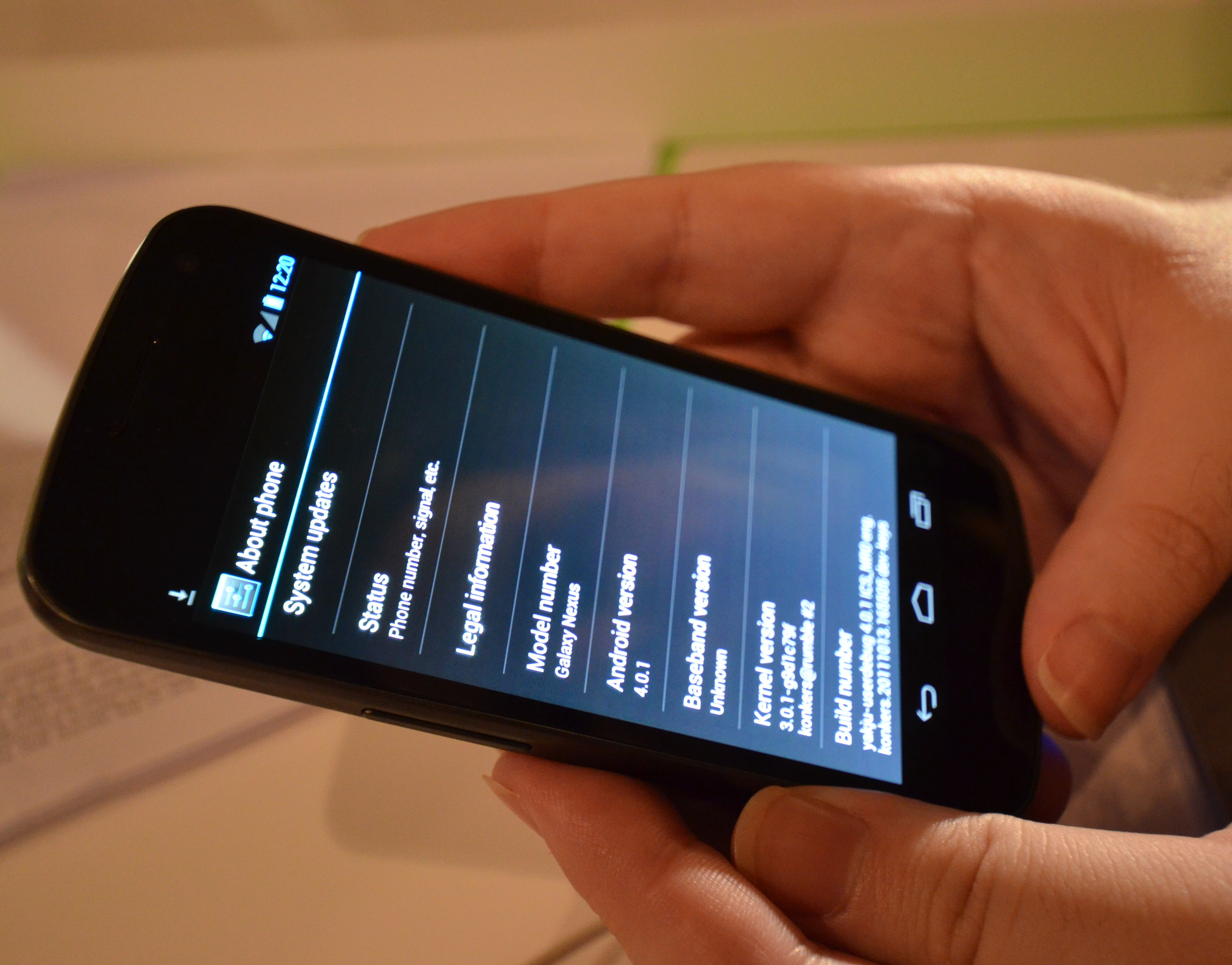 Hands-on with the Galaxy Nexus at its announcement event in Soho, Hong Kong.